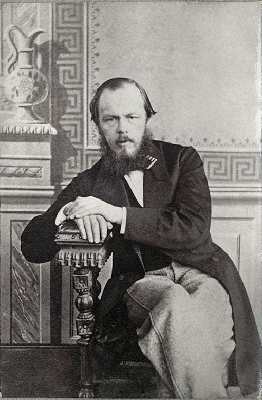 The Russian writer Fyodor Dostoevsky in 1863. Black and white photograph.